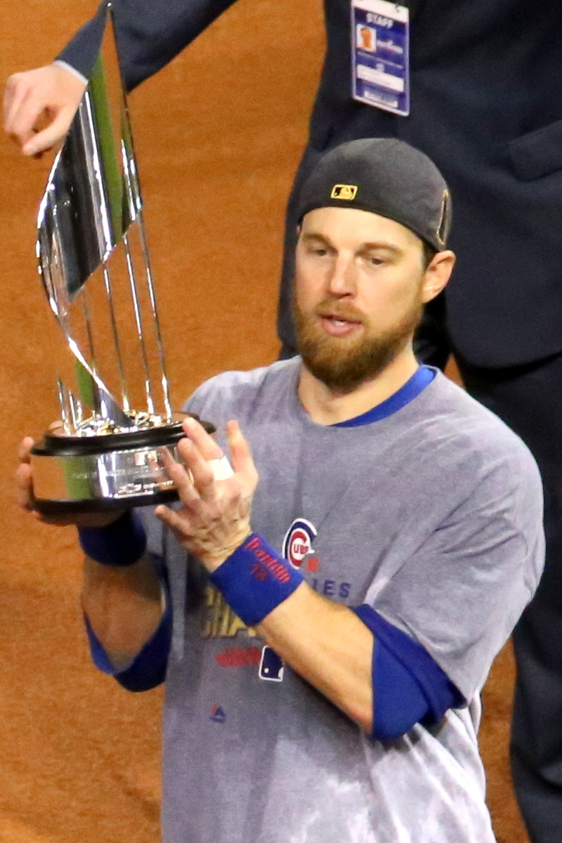 2016 World Series Most Valuable Player Ben Zobrist with his trophy